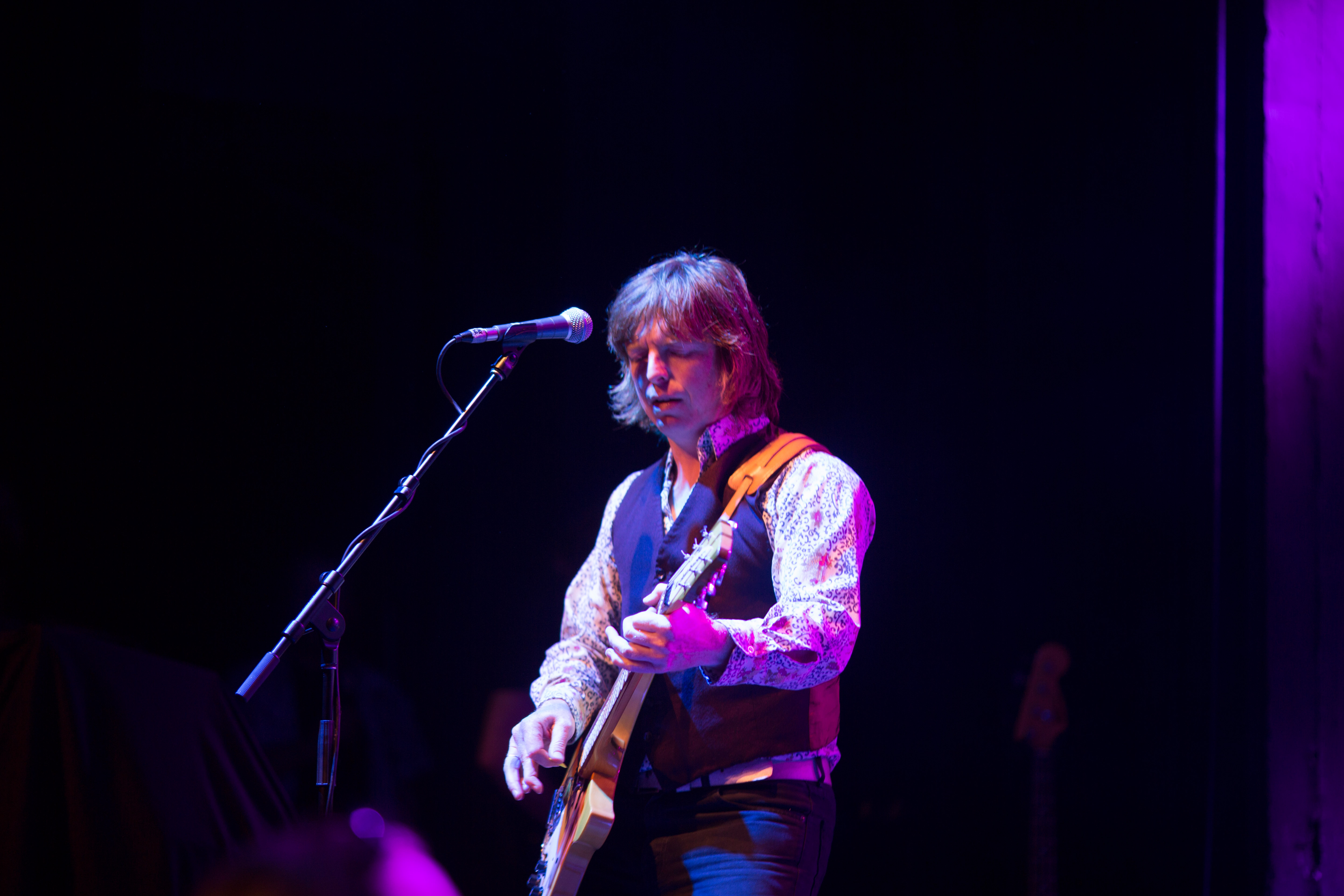 Dig It Up - 2013